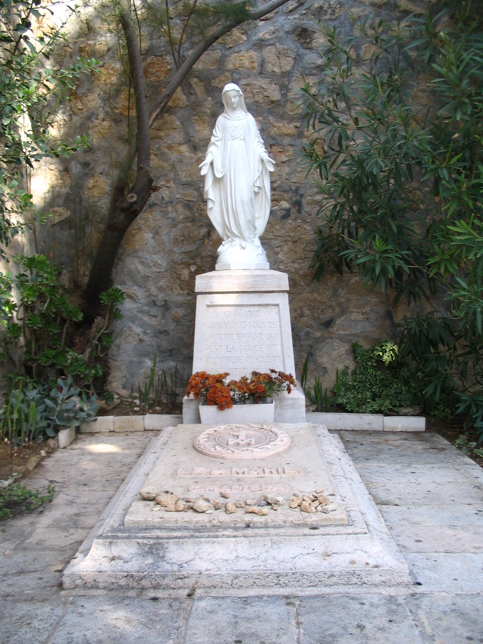 Ein Kerem, Notre Dame de Sion, Alphons Ratisbonne's tomb